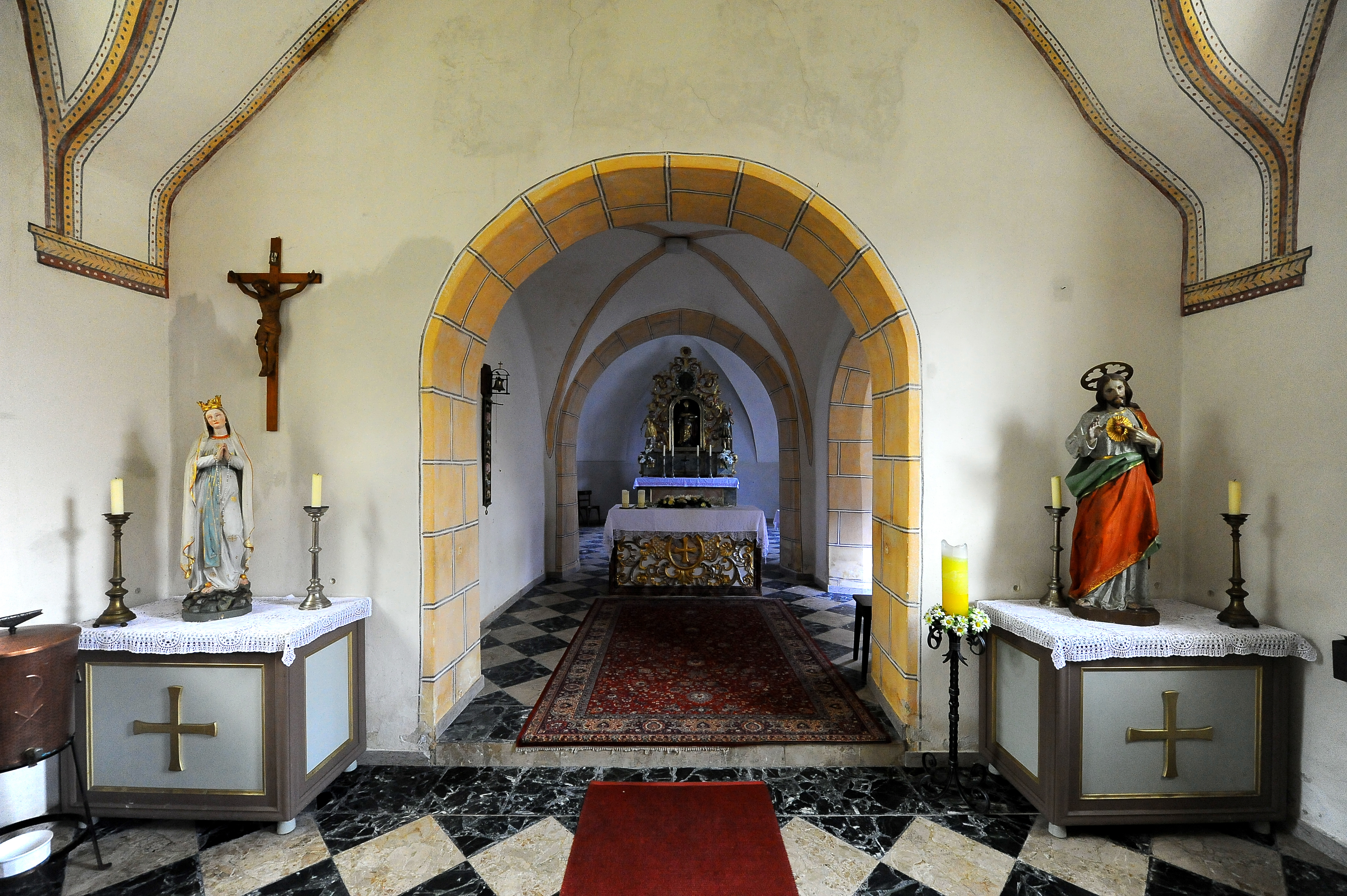 Interior of the subsidiary church Saint Ulrich at Pirk, municipality Krumpendorf, district Klagenfurt Land, Carinthia / Austria / EU